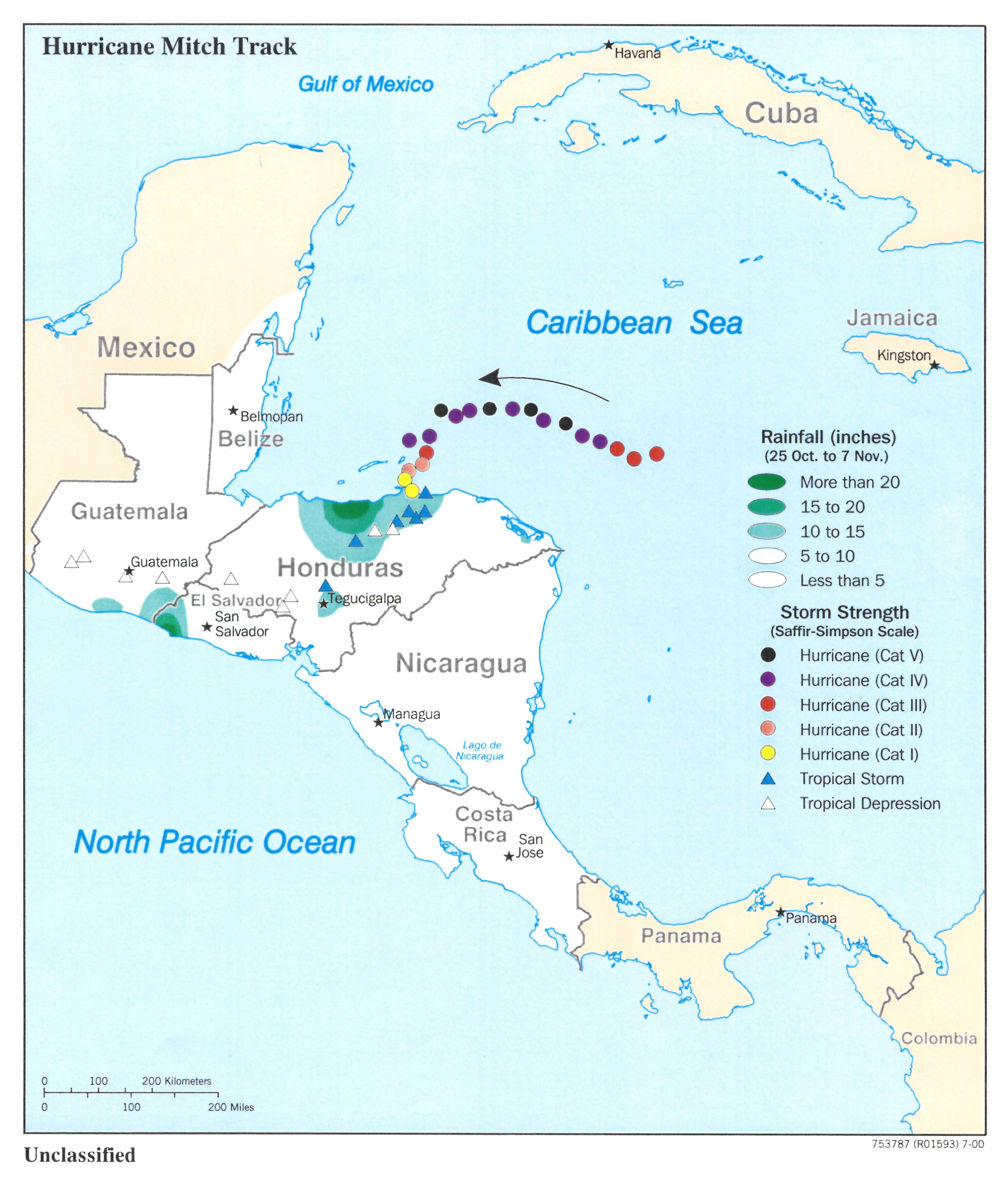 2000 Hurricane Mitch